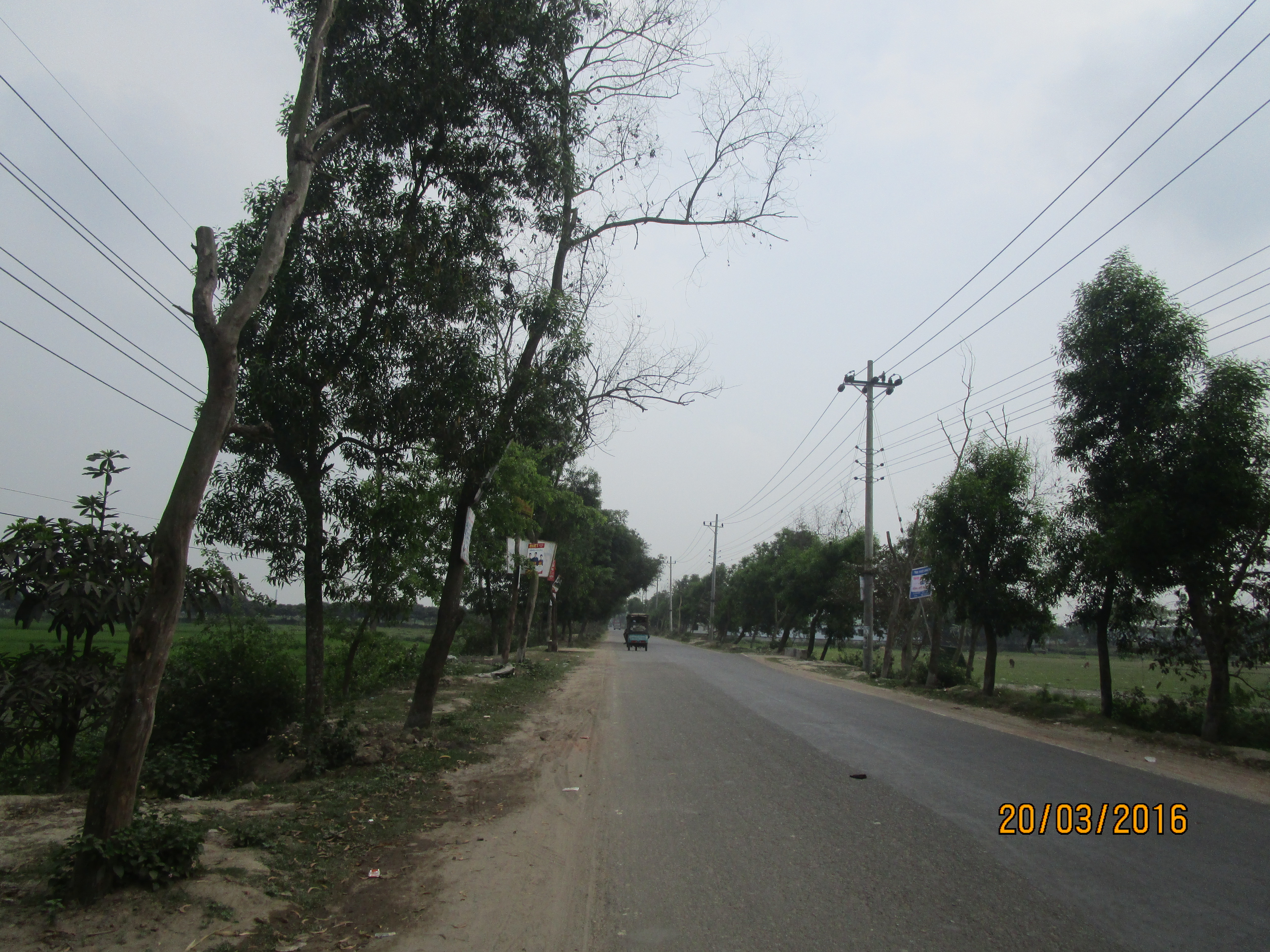 N309 Eastern bypass at Fulbaria road, Mymensingh